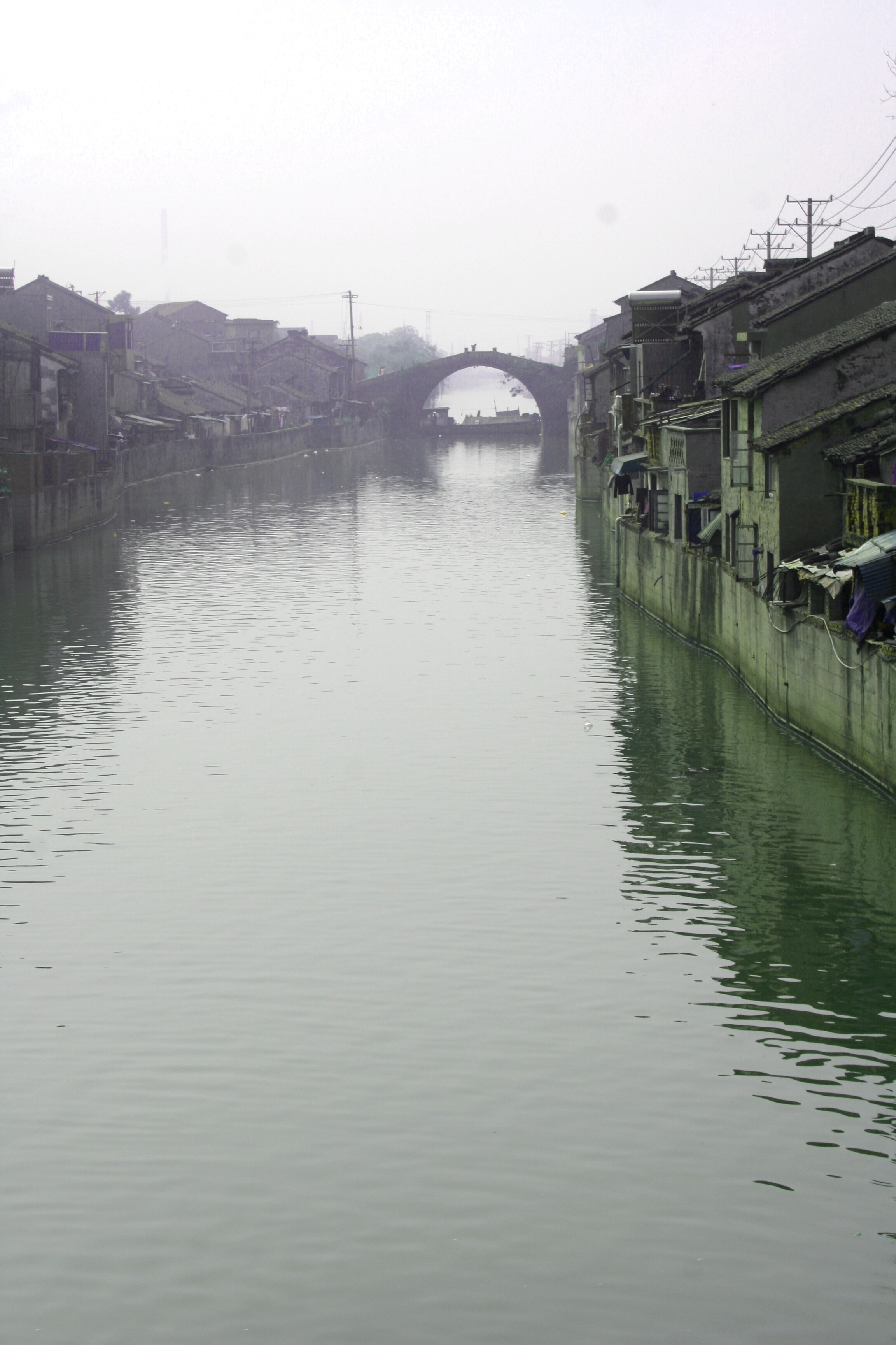 Old Town and Canal, Wuxi Personal photo released into public domain.